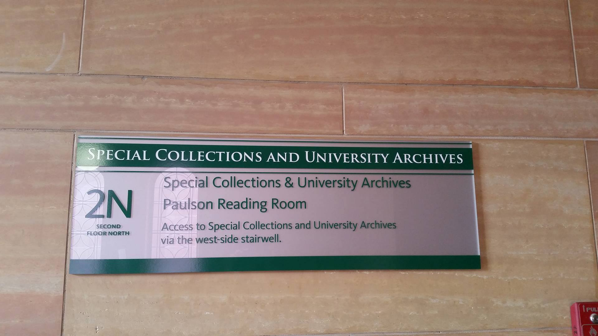 Placed on entrance to Special Collections & University Archives (SCUA) at the University of Oregon